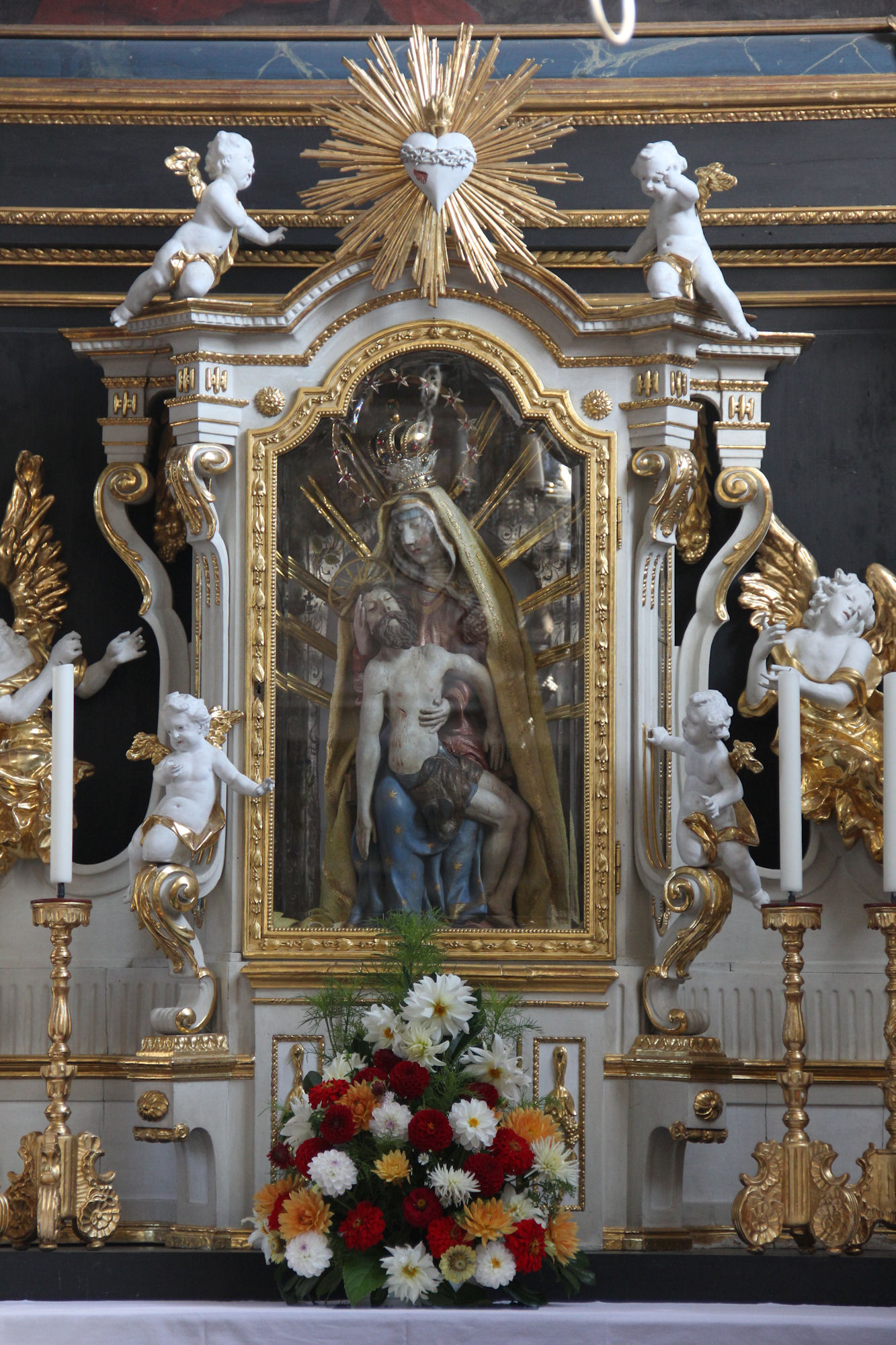 Church of St. Michael Native nameWallfahrtskirche St. MichaelLocationViolau, Swabia (administrative region), GermanyCoordinates48° 27′ 03.38″ N, 10° 34′ 17.51″ E